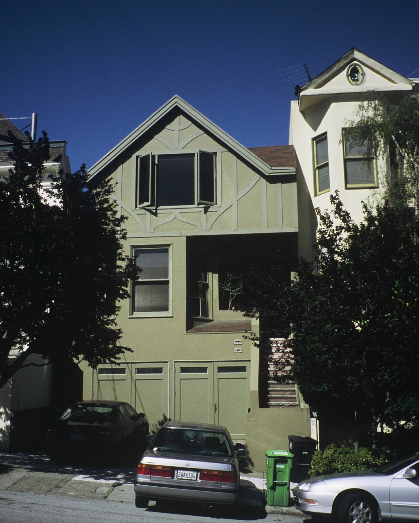 One of the last houses designed by Emily Williams